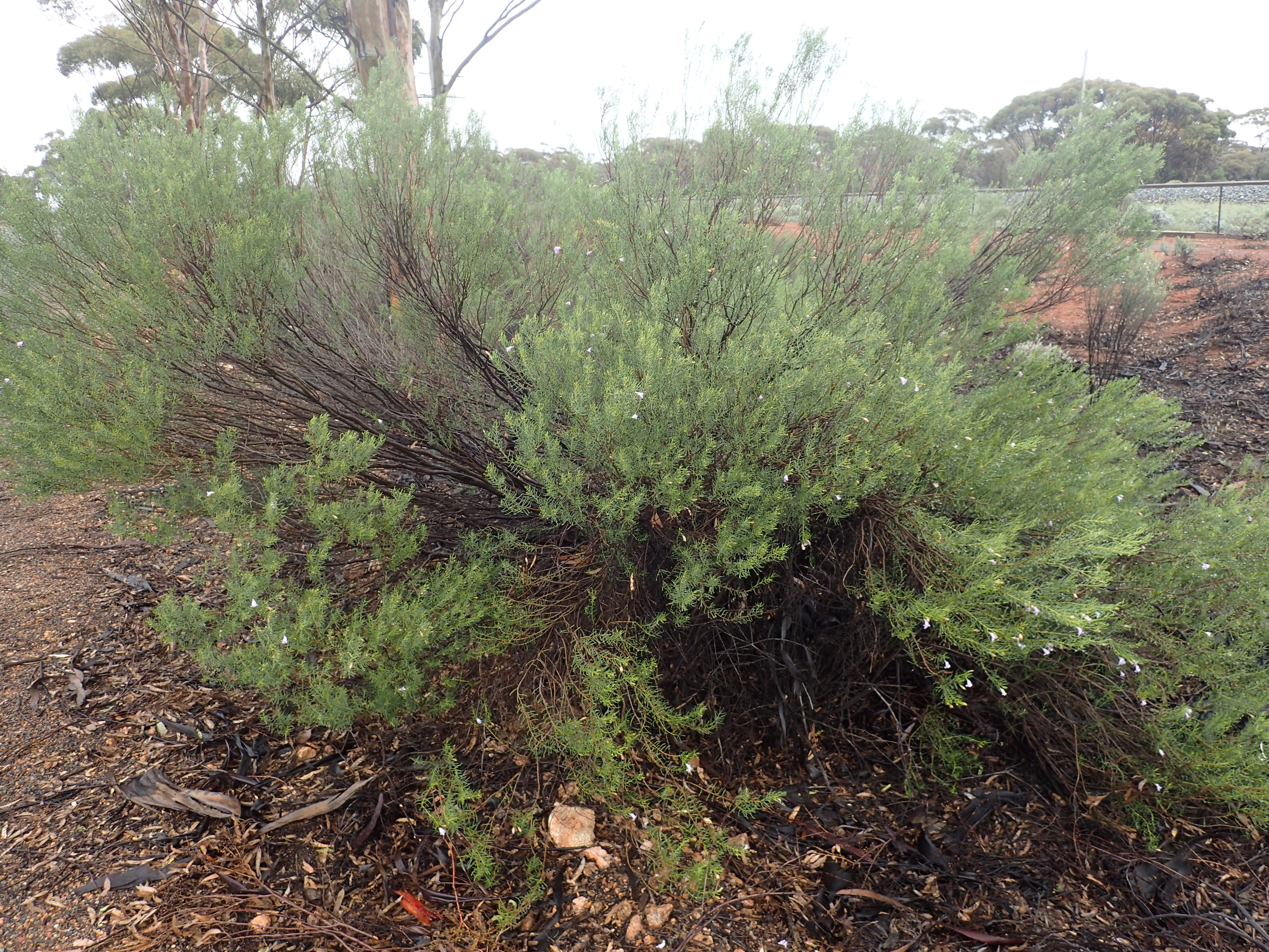 Eremophila rugosa growing near Bonnie Vale railway siding